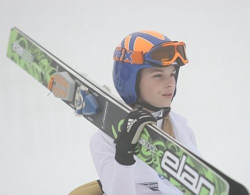 Spela Rogelj, slovenian ski jumper